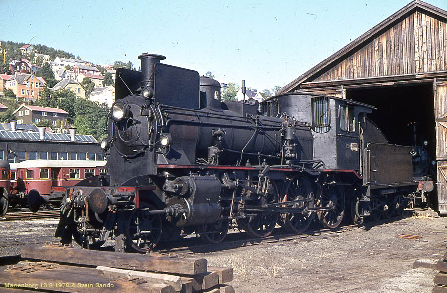 NSB steam engine class 27a, no. 234 at Marienborg, Trondheim